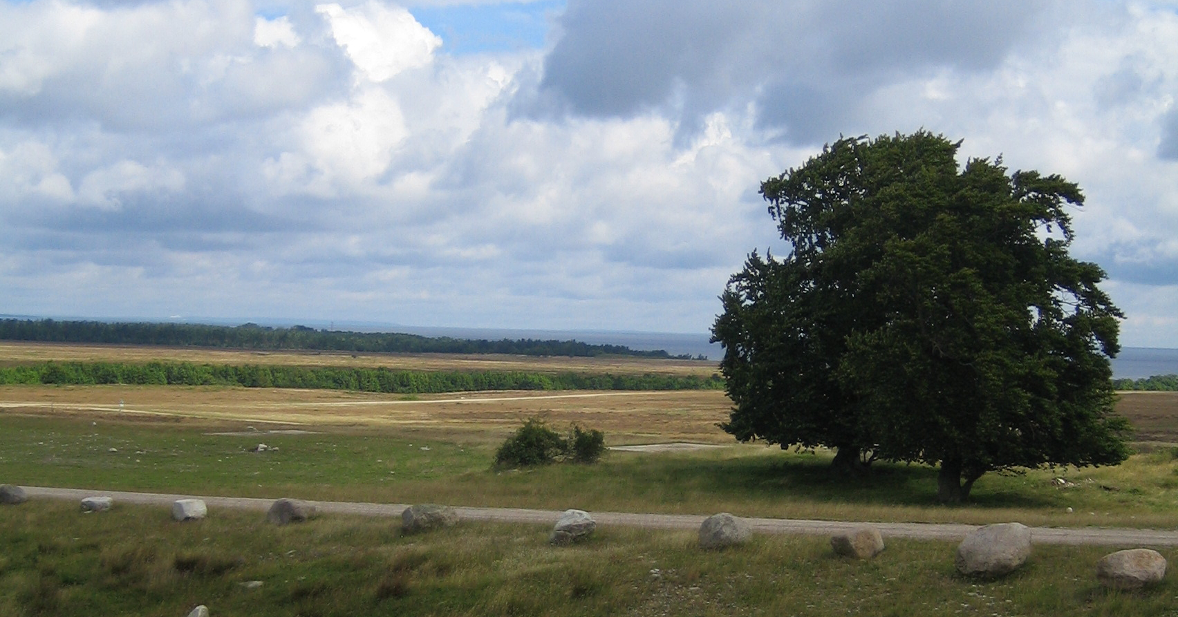 Ravlunda skjutfält, Sweden